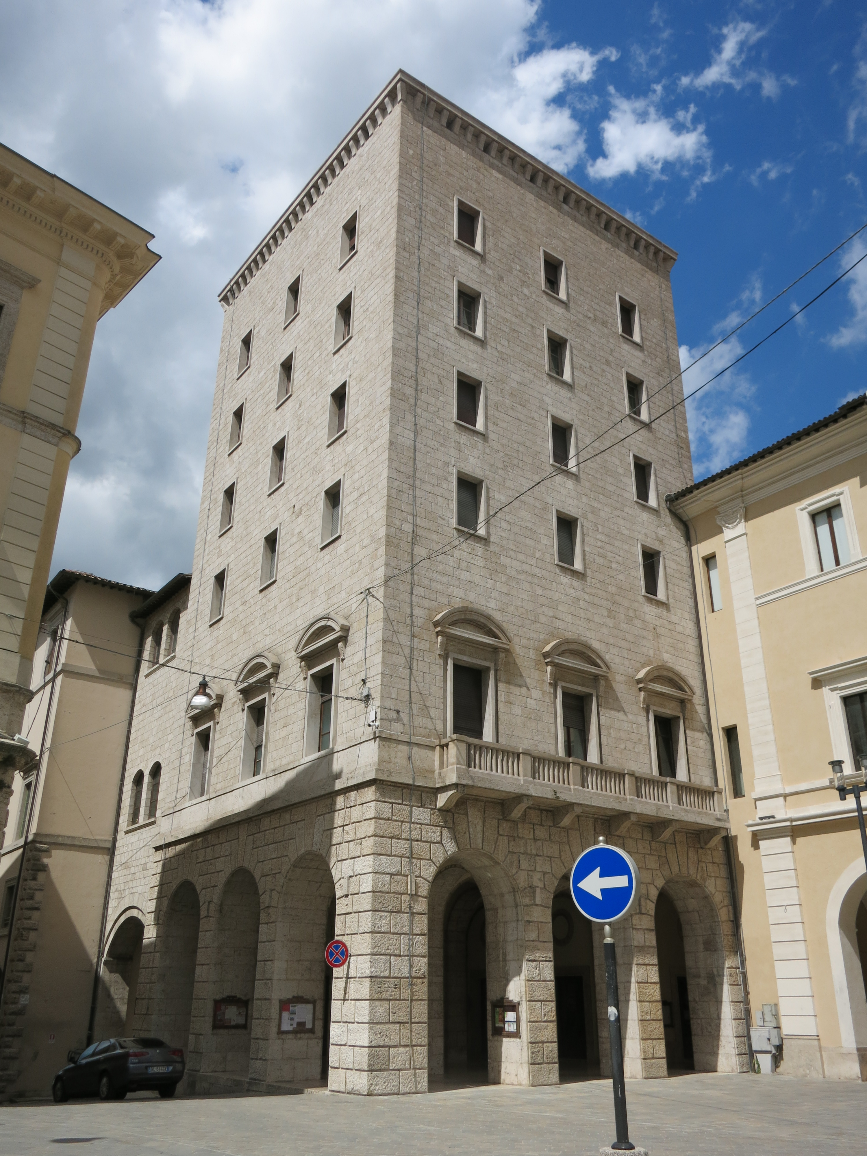 Civic tower adjoining the Municipal Palace - Rieti, central Italy